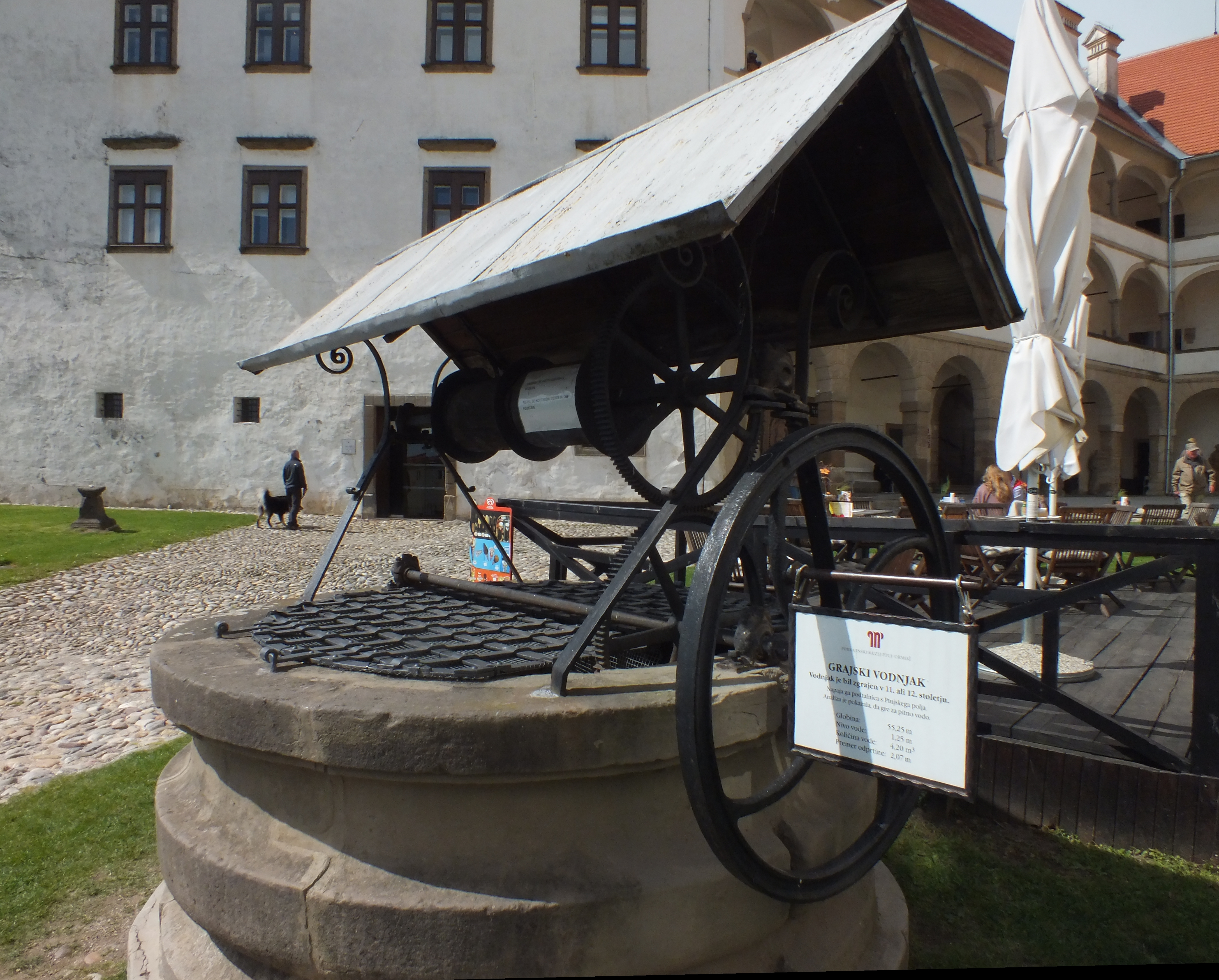 Part of the castle Ptuj in Slovenia